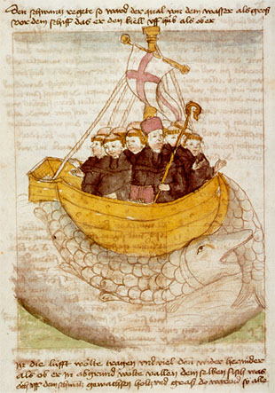 upfront Brendan of Clonfert/Saint Brendan of Clonfert